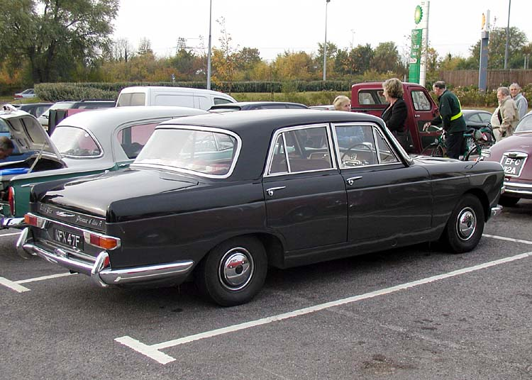 1967 Vanden Plas Princess 4 litre R at a Classics Rally at Aust Motorway Services, Bristol, England. Seven thousand of this 4 litre model were made between August 1964 and May 1968. Top speed 112 mph.This is a luxury version of the Austin Westminster and Wolseley 6/99 and 6/110.